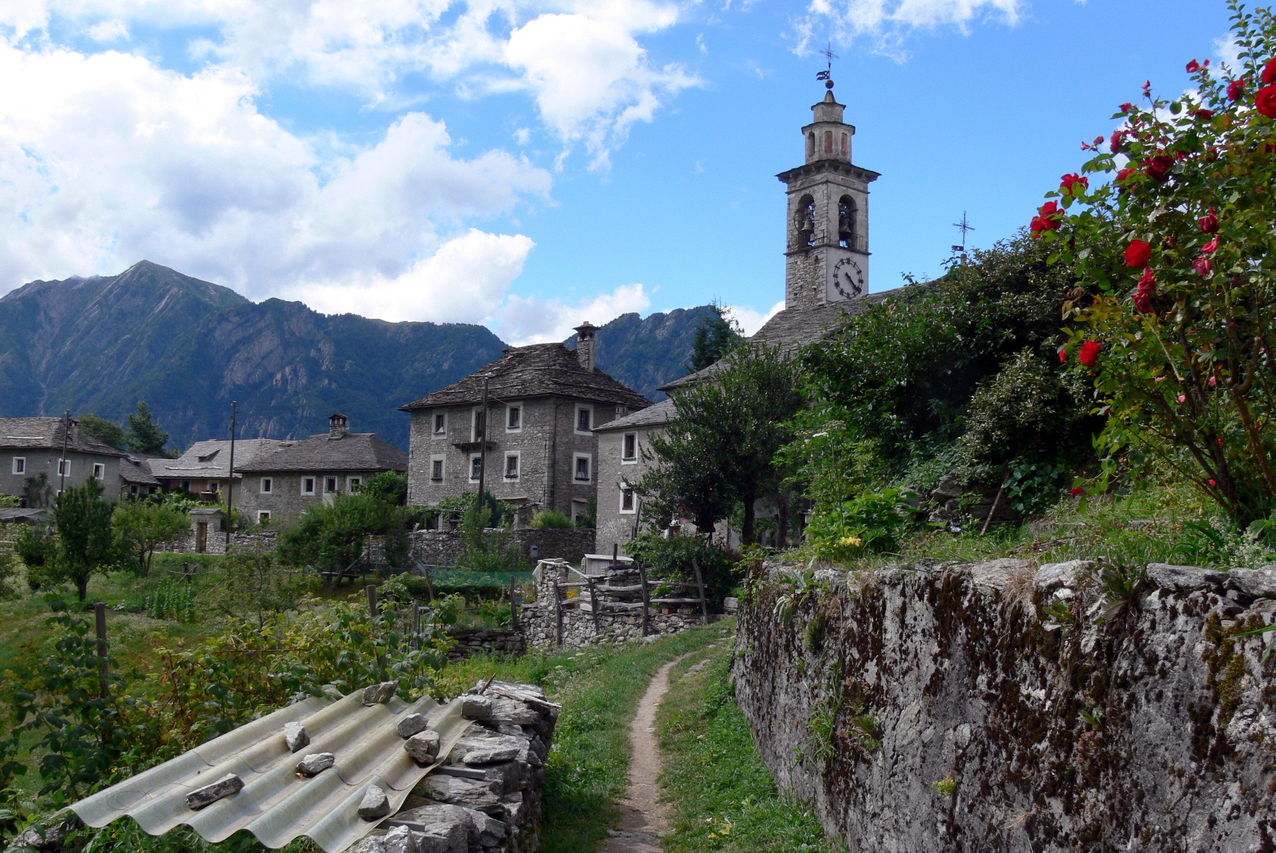 Rasa ( Intragna / Locarno ). View of the village.